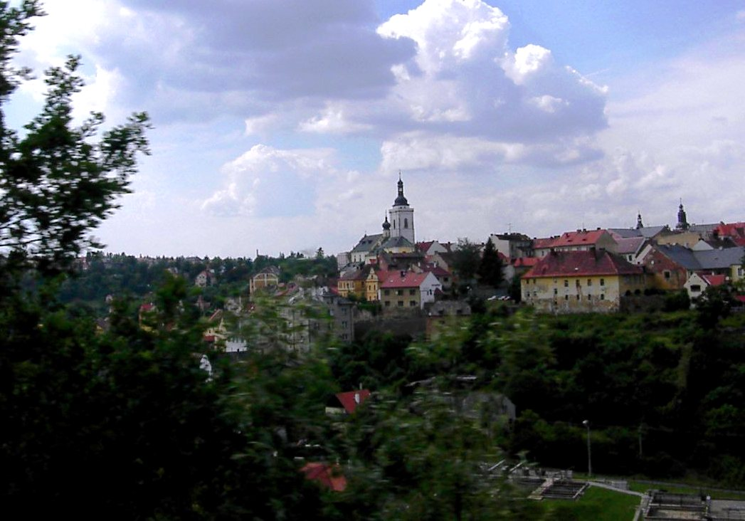 Town centre of Stříbro, Tachov District, Czech Republic, as seen from the southeast, from railway track of Plzeň - Cheb line.